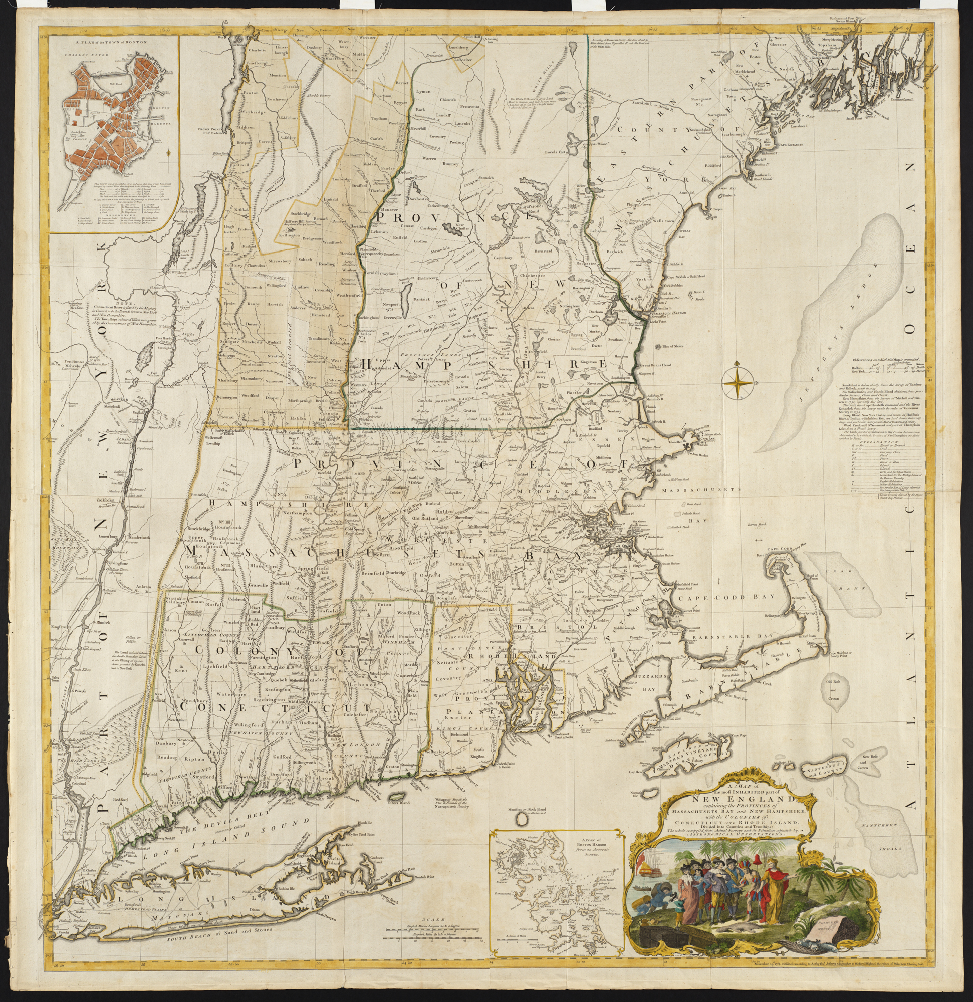 Zoom into this map at . Author: Jefferys, Thomas Publisher: Thos. Jefferys Date: 1774. Location: New England Scale: Scale ca. 1:440,000. Call Number: G3720 1774.J44 This large, detailed map of New England was compiled by Braddock Mead (alias John Green), and first published by Thomas Jefferys in 1755. Green was an Irish translator, geographer, and editor, as well as one of the most talented British map-makers at mid-century. The map was re-published at the outset of the American Revolution, as it remained the most accurate and detailed survey of New England. Of interest are engraved double lines found beneath certain place-names, including Boston. These lines indicate cities whose longitude had been calculated with the aid of the newly invented marine chronometer.